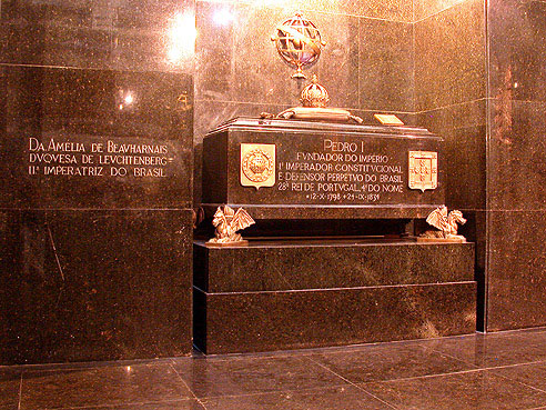 Tombs of the Emperor Dom Pedro I and the Empress Dona Amelia of Brazil in the Imperial Chapel (São Paulo).